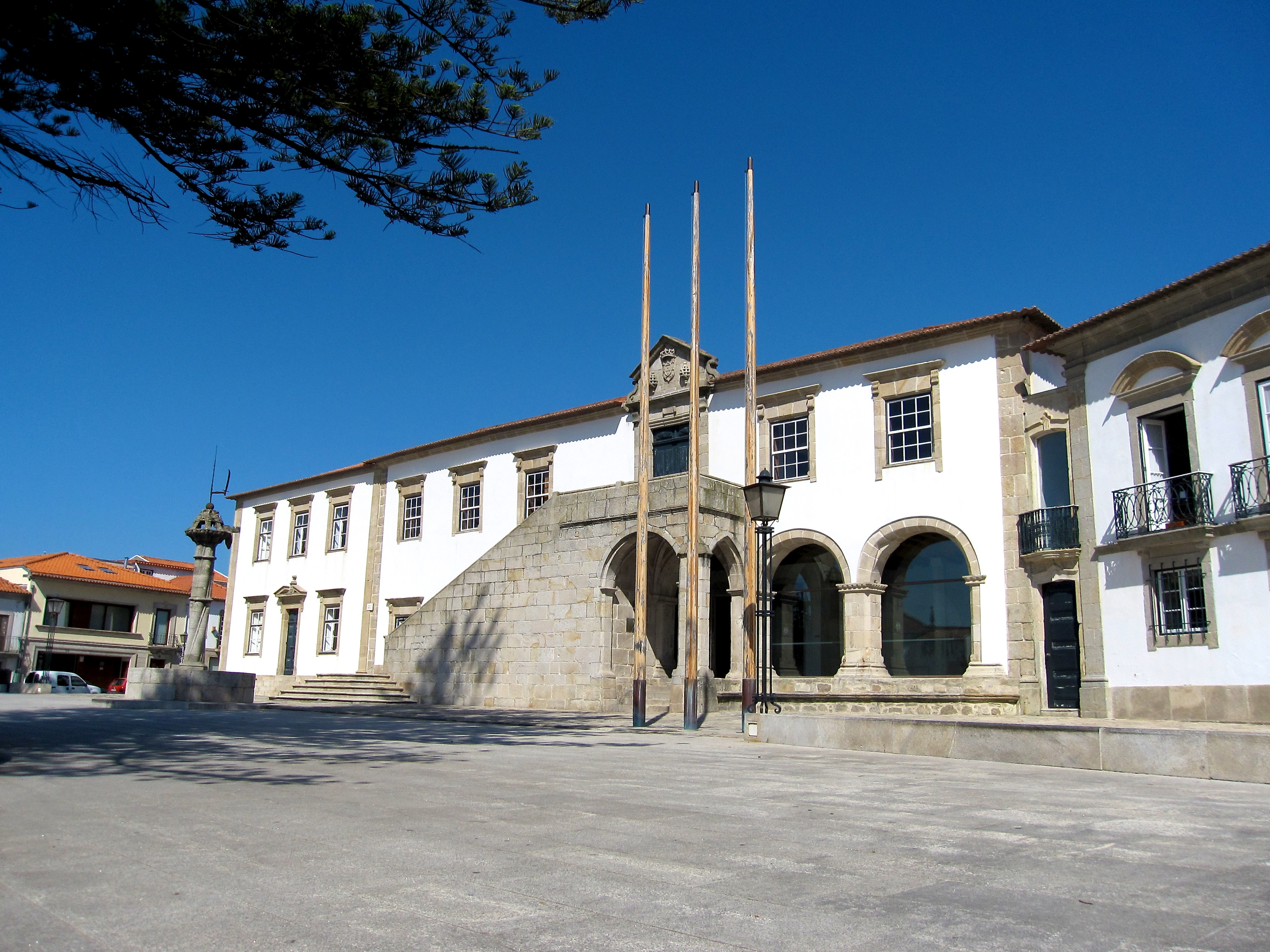 This file was uploaded for Wiki Loves Monuments in Portugal with the unique identifier 97005367.